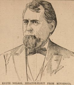 Portrait of Knute Nelson after his election to Senate, 1895